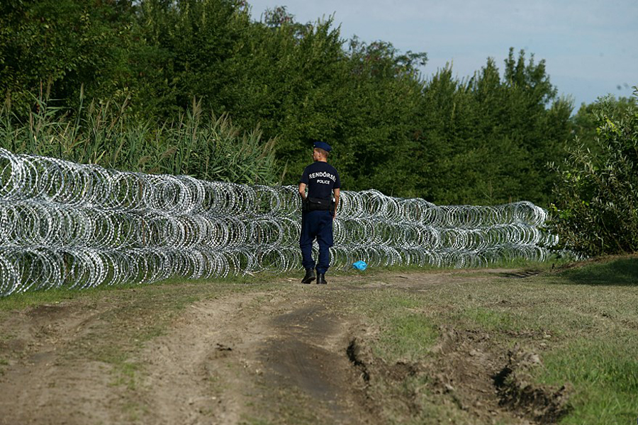 Policeman at Hungary-Serbia border barrier